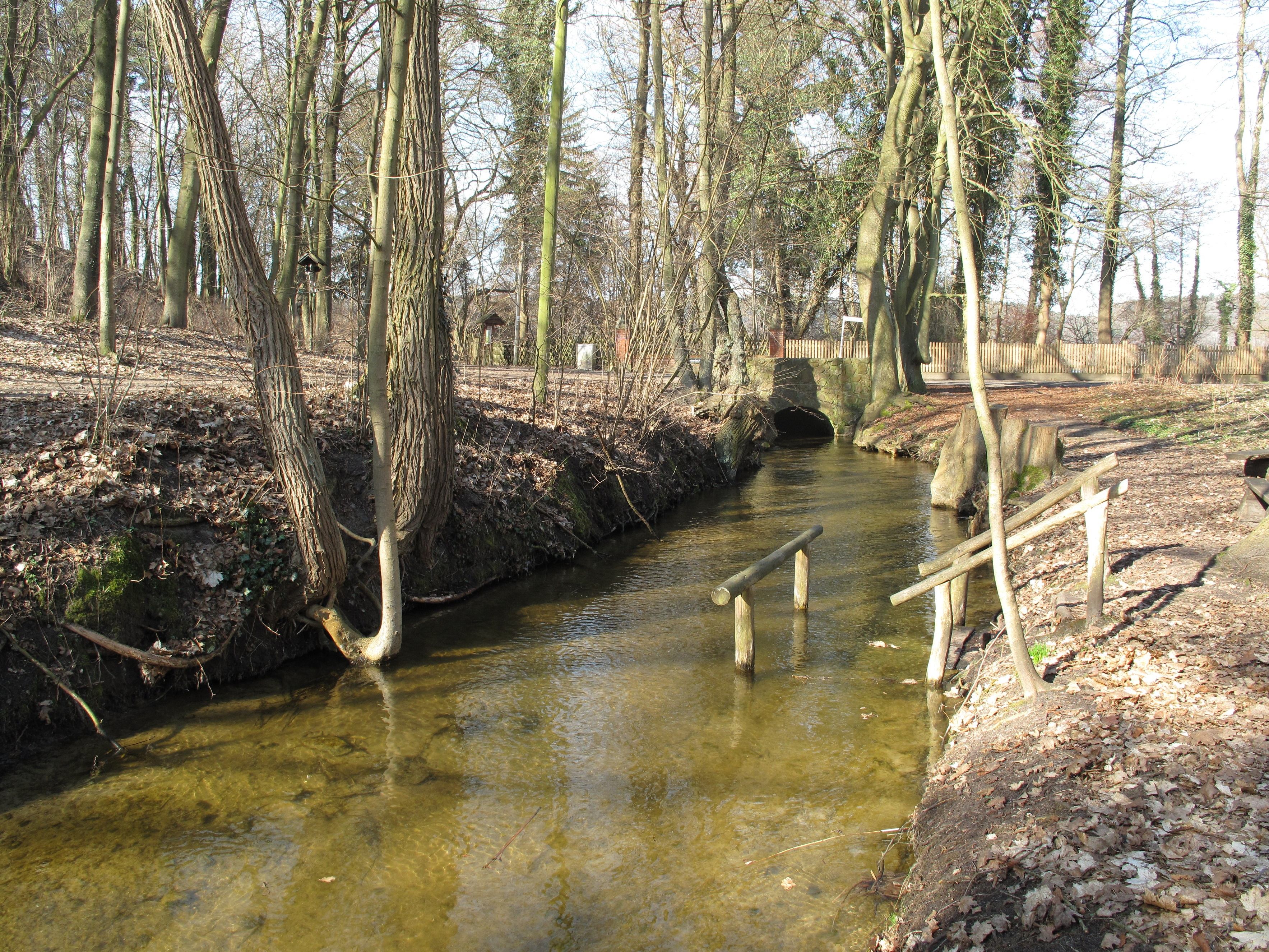 Werderfließbrücke (bridge) and Kneipp-treading-water-place at the Werderfließ. The Werderfließ is an around 400 meters long stream in Buckow, District Märkisch-Oderland, Brandenburg, Germany. It is situated in the hill country „Märkische Schweiz“ and in the Märkische Schweiz Nature Park. The stream is the discharge of the Schermützelsee (lake) and is flowing into the Buckowsee (lake), which is crossed by the river Stobber. The Stobber flows into the Oder. The Werderfließ is mostly sorrounded by a species-rich black alder-carr.